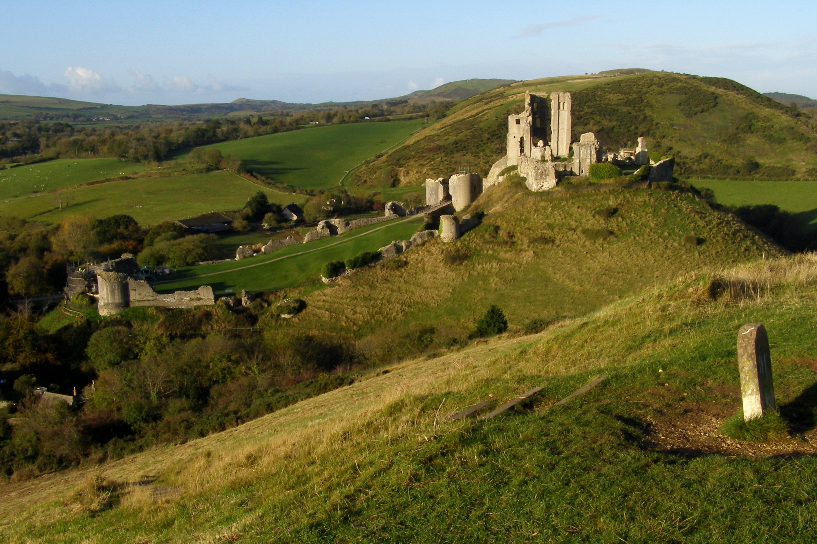 Corfe Castle on Castle Hill, filling the Corfe Gap between West Hill and East Hill. Some blindingly obvious place-name choices around here.